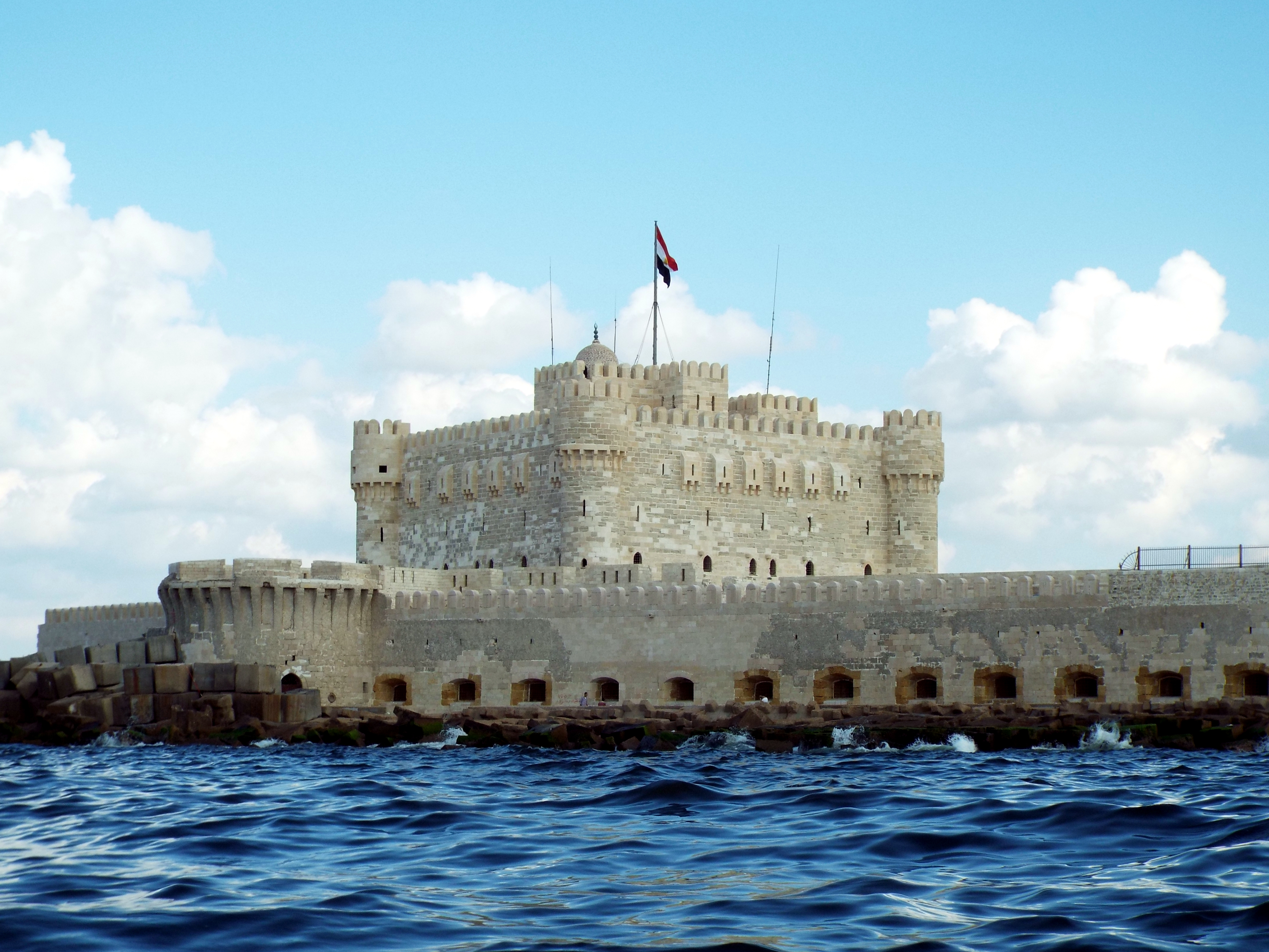 Citadel or Fort of Qaitbay, built upon the ruins of the Lighthouse of Alexandria, in Egypt.